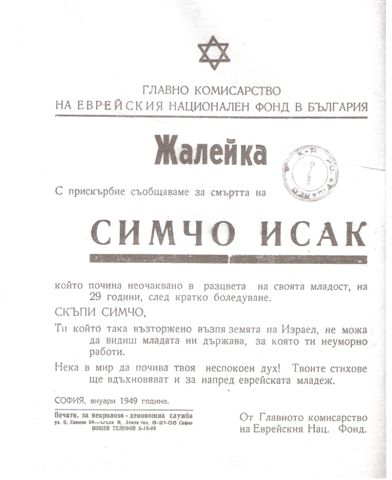 Announcement of the death of Simcho Isakov, Bulgarian poet, made by the National Commission of the Jewish community in Bulgaria, January 1949.